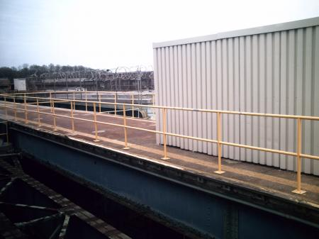 Unused platforms and trackways at Atlantic Avenue on the BMT Canarsie Line